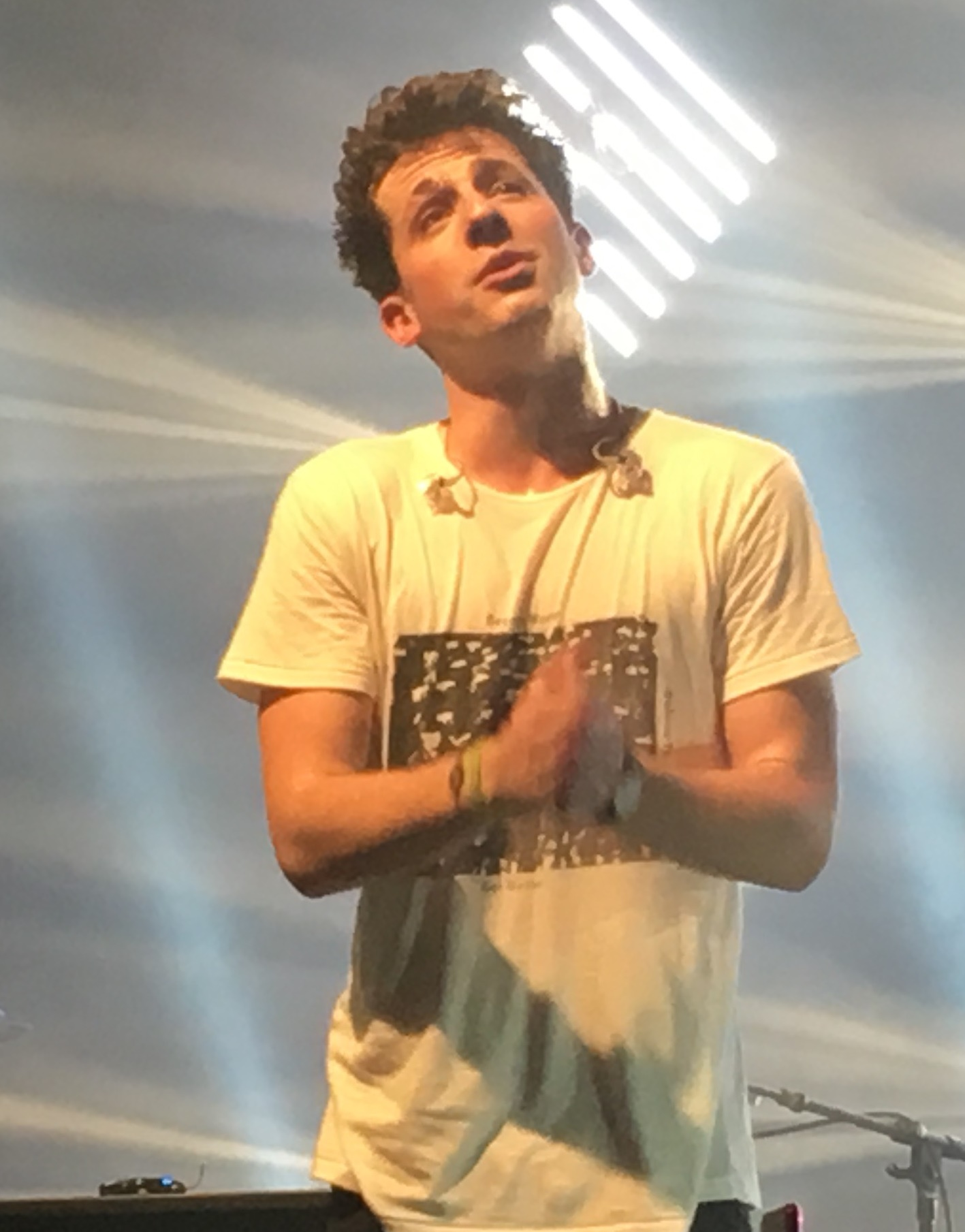 Charlie Puth in 2016